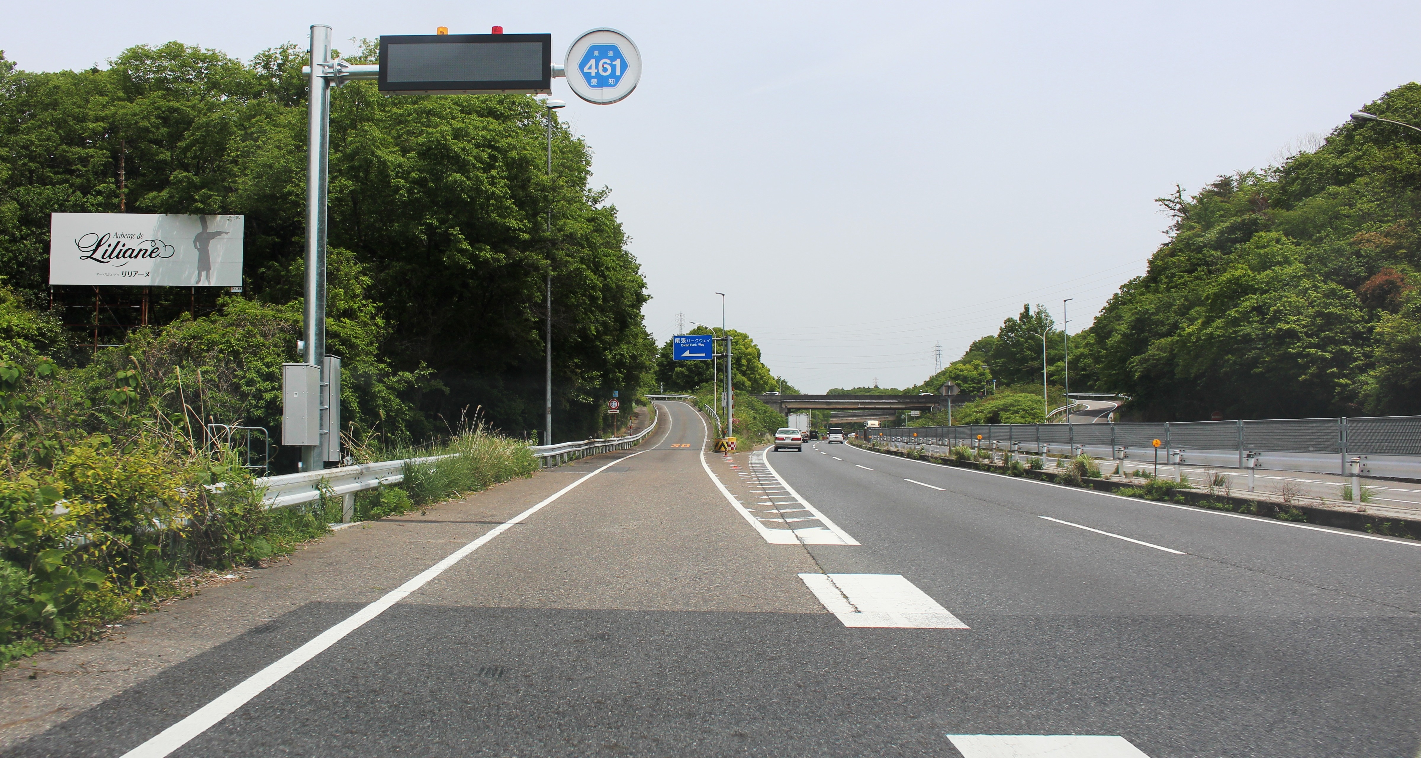 Shimizu IC of Route 41 for Aichi Prefectural Road Route 461 in Inuyama, Aichi prefecture, Japan.